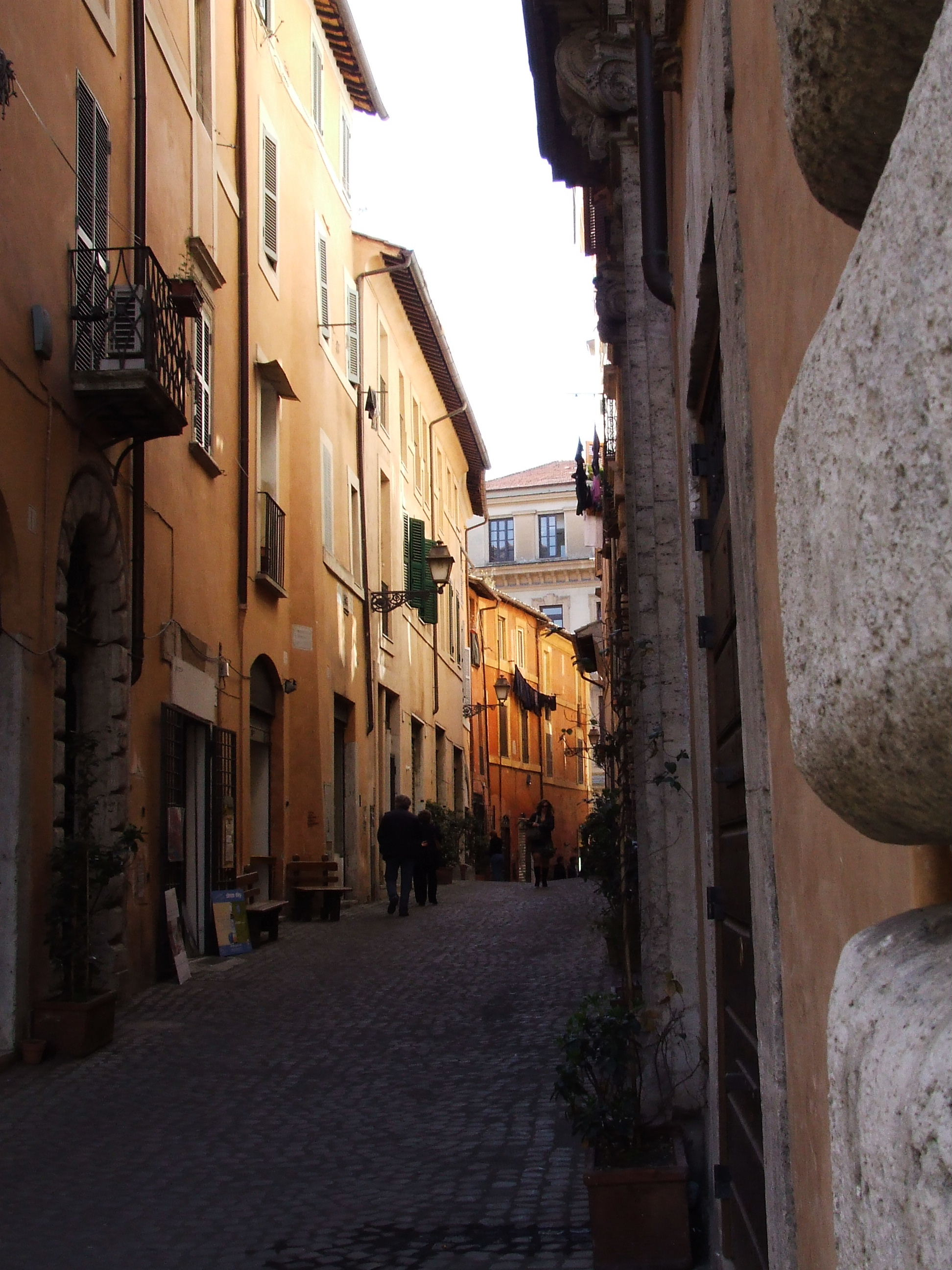 View of the Via della Reginella from the Piazza Mattei in the Sant'Angelo riona of Rome, Iraly. Located in the Roman Ghetto.